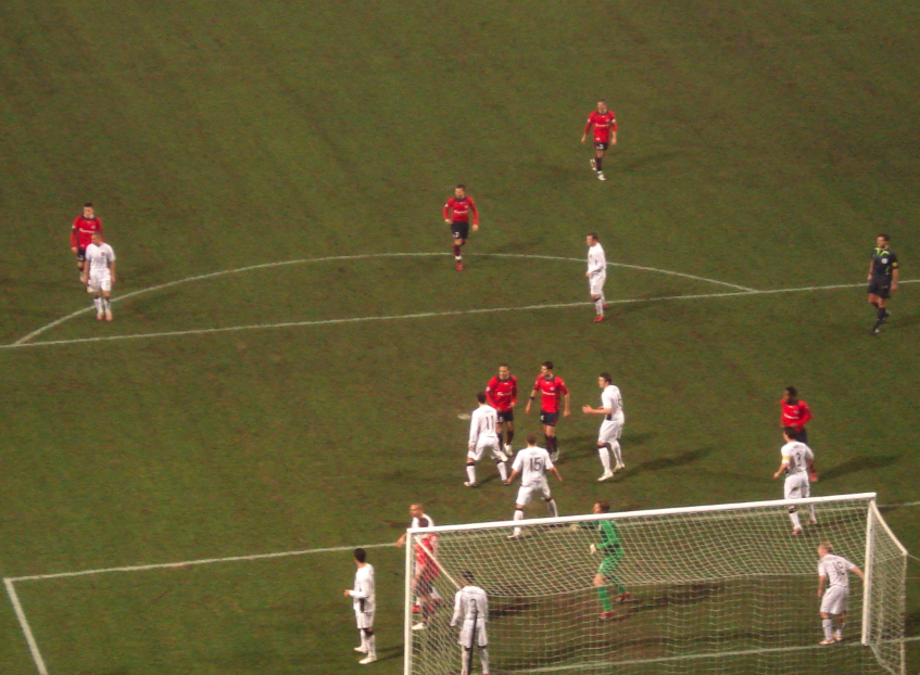 Lille (LOSC) vs Manchester United (Champions League 2006-2007, Bollaert Stadium, Lens)